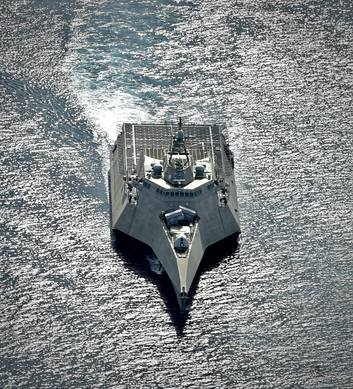 SOUTH CHINA SEA (June 16, 2020) The Independence-variant littoral combat ship USS Gabrielle Giffords (LCS 10) conducts routine operations in the South China Sea, June 16, 2020. Gabrielle Giffords, part of Destroyer Squadron Seven, is on a rotational deployment, operating in the U.S. 7th Fleet area of operations to enhance interoperability with partners and serve as a ready-response force. (U.S. Navy photo by Mass Communication Specialist 2nd Class Brenton Poyser)